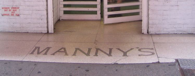 Manny's text before the place where shop used to be